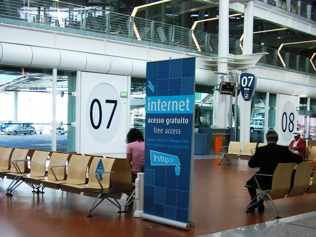 International airport in Porto, Portugal